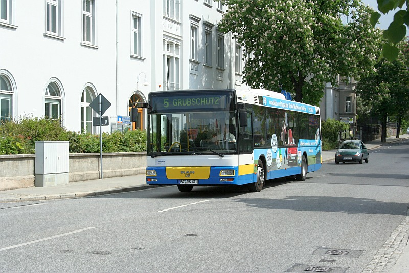 MAN NL 313 city bus (#131) in Bautzen, Germany. Built 2002.